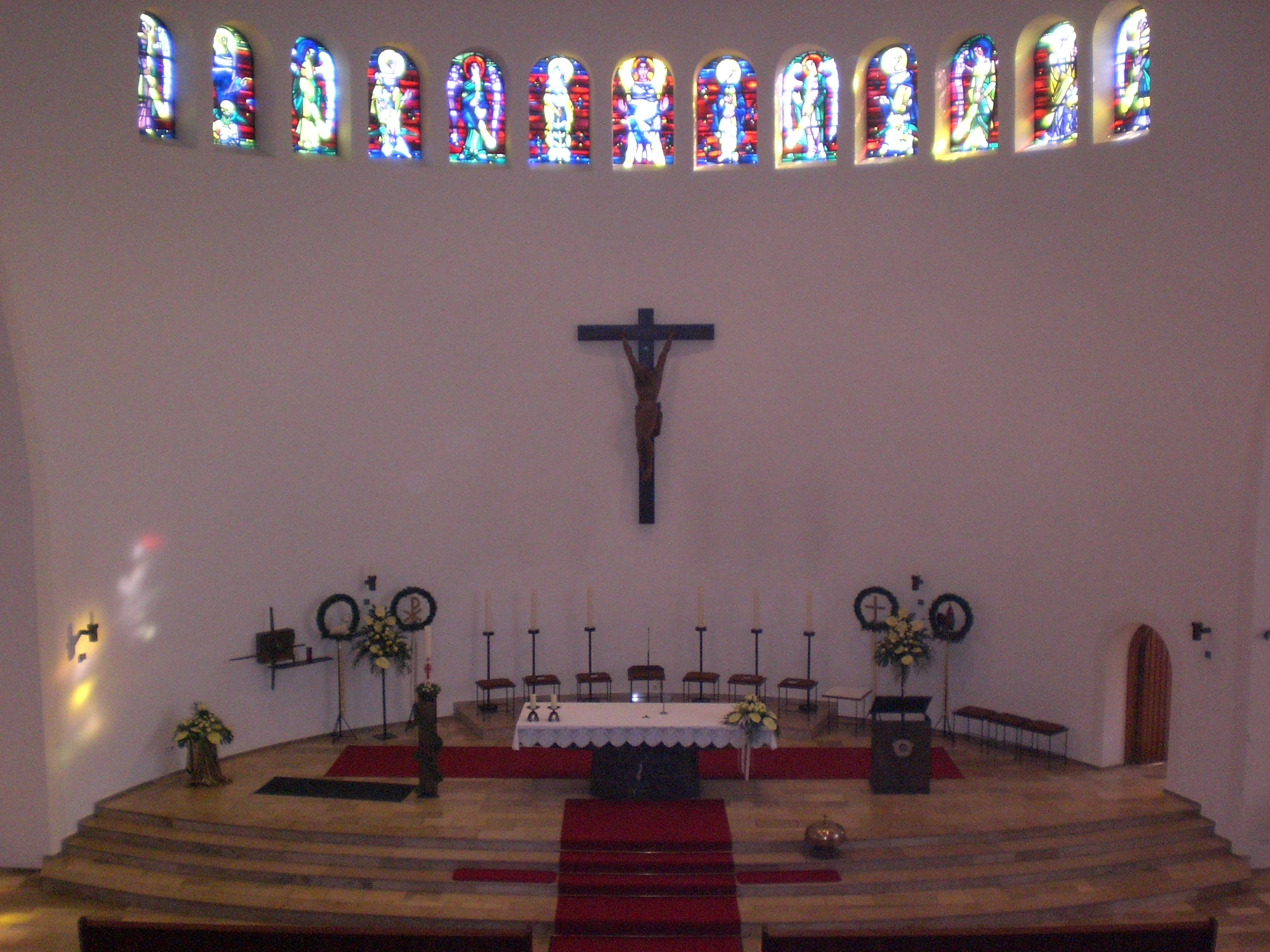 Augustinus Innen